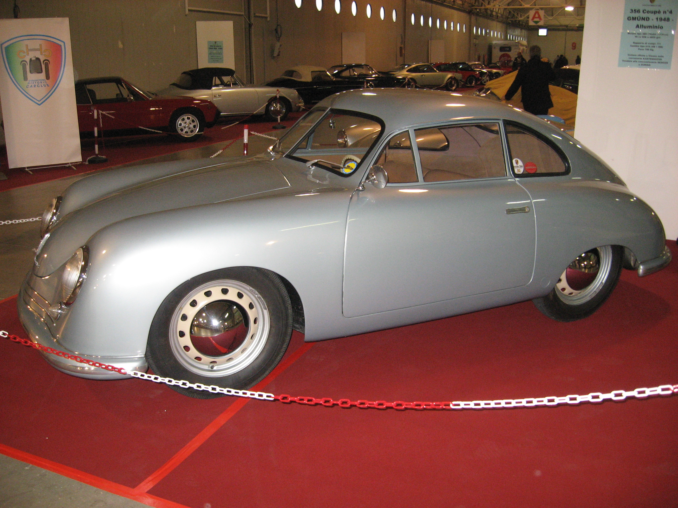 Subject:Porsche 356 Pre-A Coupé (1948) Author:Luc106 Date:November 24th, 2007 Event: Marke-Retrò 2007 Place/Country: Cesena (FC), Italy I release all rights in the public domain.